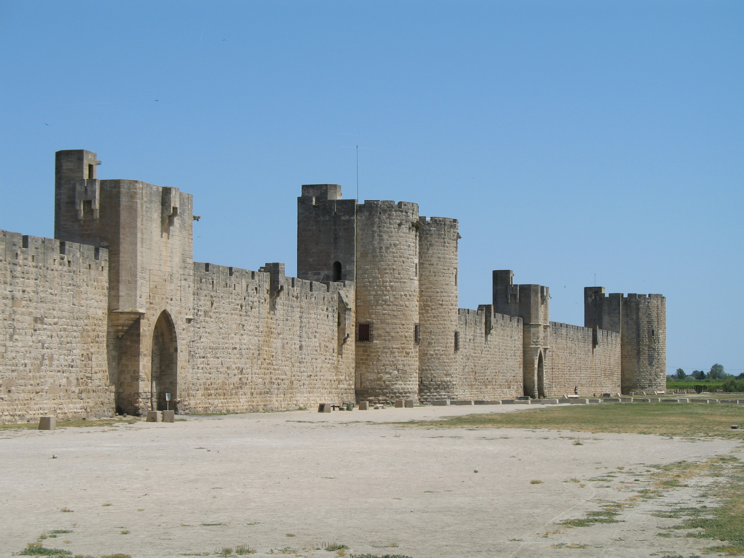 Medieval town walls of Aigues-Mortes (département du Gard, France)